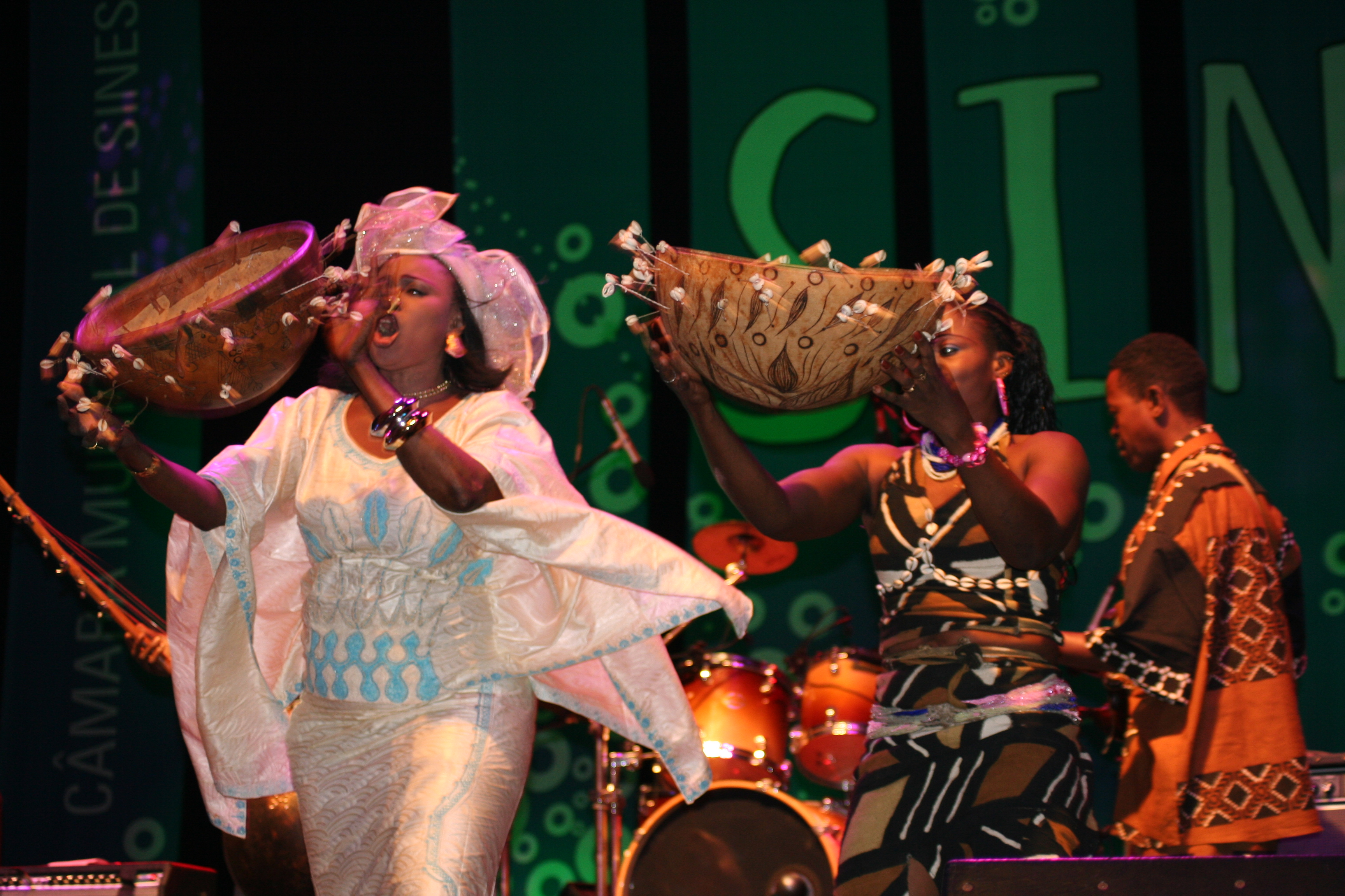 Oumou Sangaré at FMM in Sines 2007